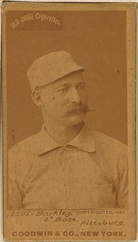 Sam Barkley on a baseball card.